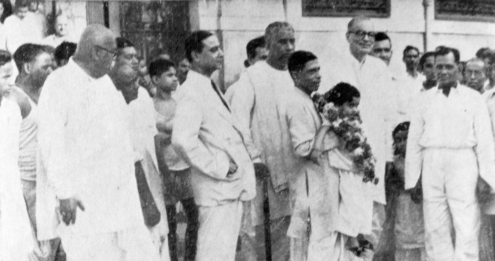 JK Seal along with Chief minister of West Bengal Dr. Bidhan Chandra Roy and minister Sri Kalipada Mukherjee in an event of five mile run in Kolkta